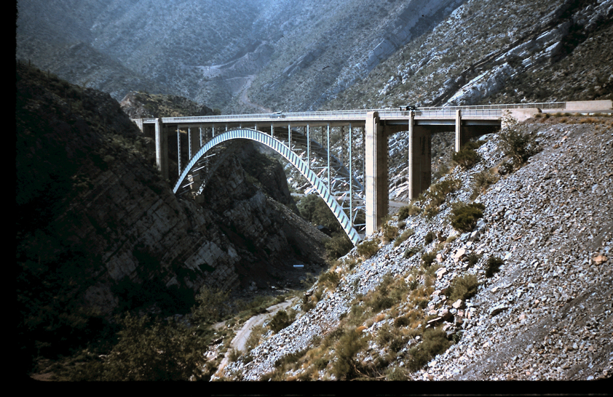 Bridge east of Superior Arizona, along US 60 in 1955.